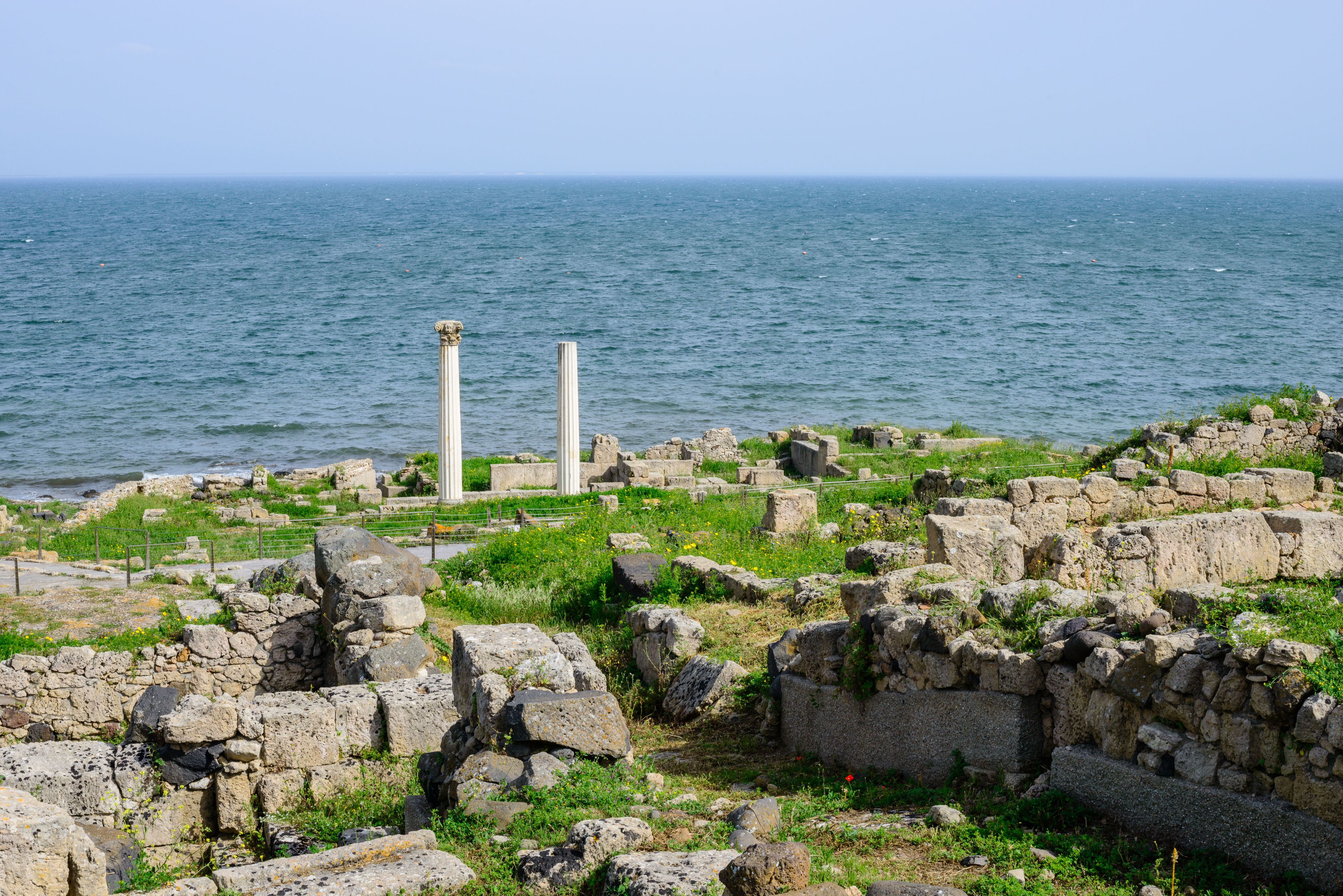 Tharros, ancient city ruins on the west coast, province of Oristano, Sardinia, Italy.